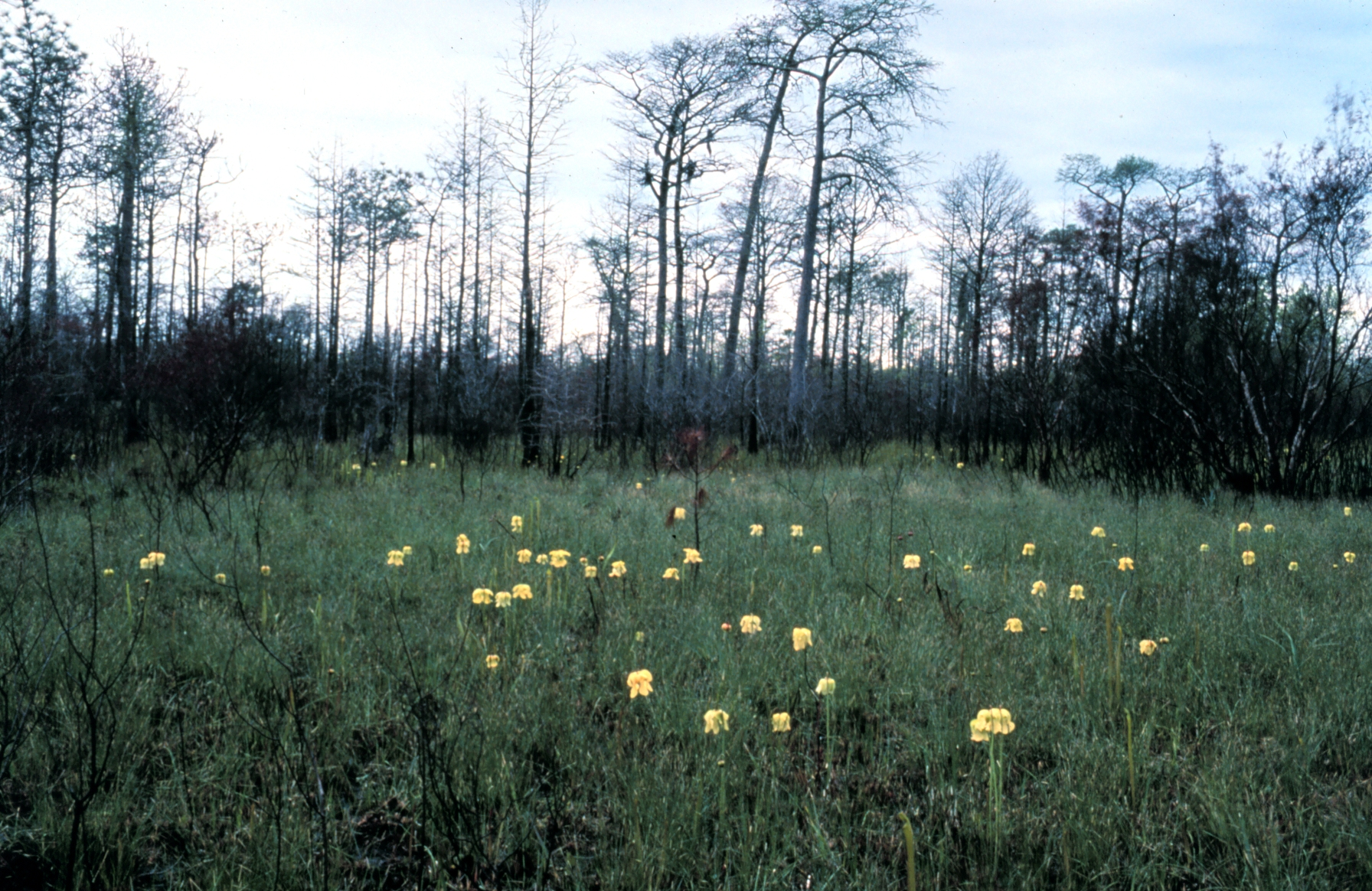 Grand Bay National Estuarine Research Reserve. Wet pine savanna. 1995. Image ID: nerr0739, NOAA's Estuarine Research Reserve Collection Photographer: Beth Young National Oceanic and Atmospheric Administration/Department of Commerce